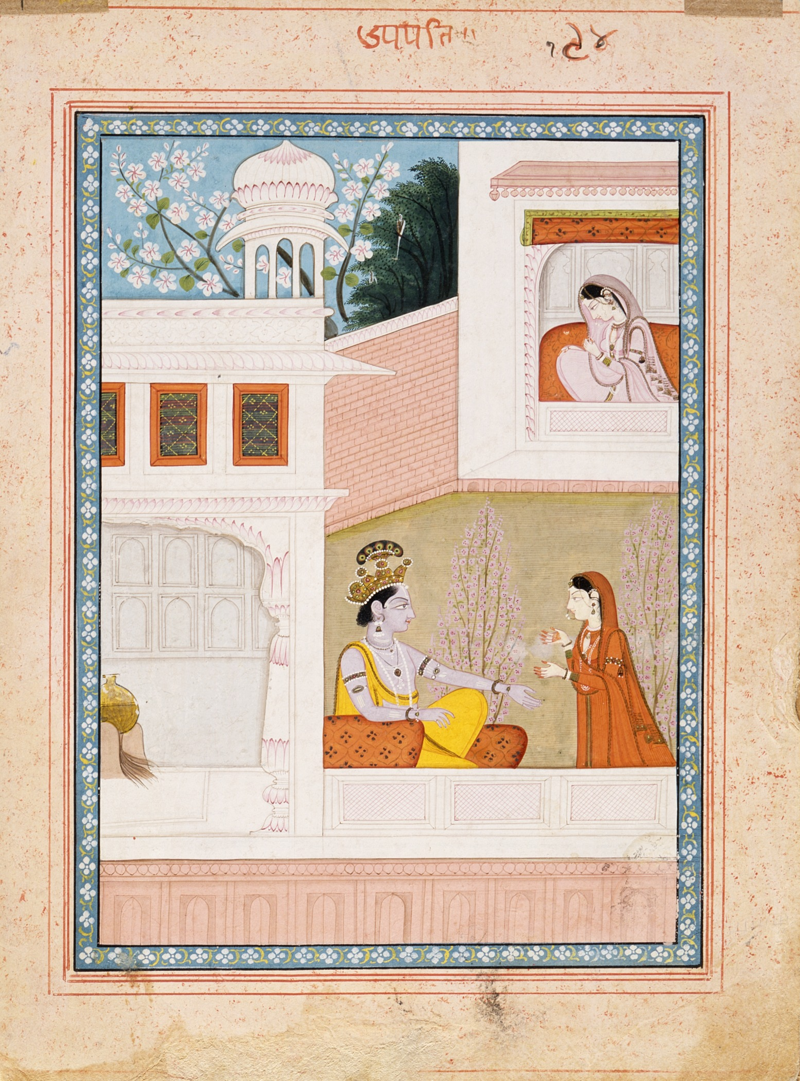 India, Himachal Pradesh, Kangra, circa 1825 Drawings; watercolors Opaque watercolor, gold, and ink on paper Image: 8 1/4 x 5 7/8 in. (20.95 x 14.92 cm); Sheet: 11 1/8 x 8 1/4 in. (28.25 x 20.95 cm) Gift of Jane Greenough Green in memory of Edward Pelton Green (AC1999.127.5) South and Southeast Asian Art